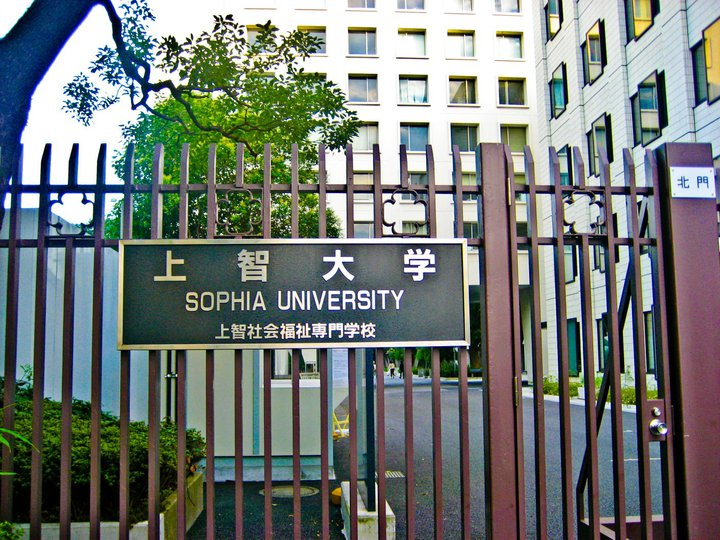 Sophia University second gate